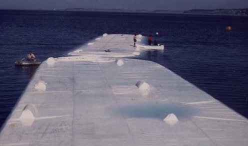 Flexible fabric barge, aka "Spragg waterbag"